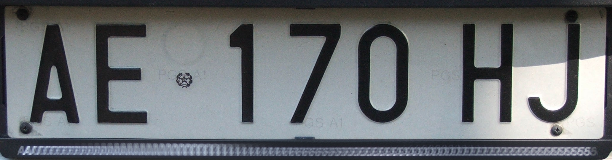 Vehicle licence plate from Italy as seen in 2007.